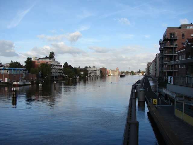 Zaandam Zaan